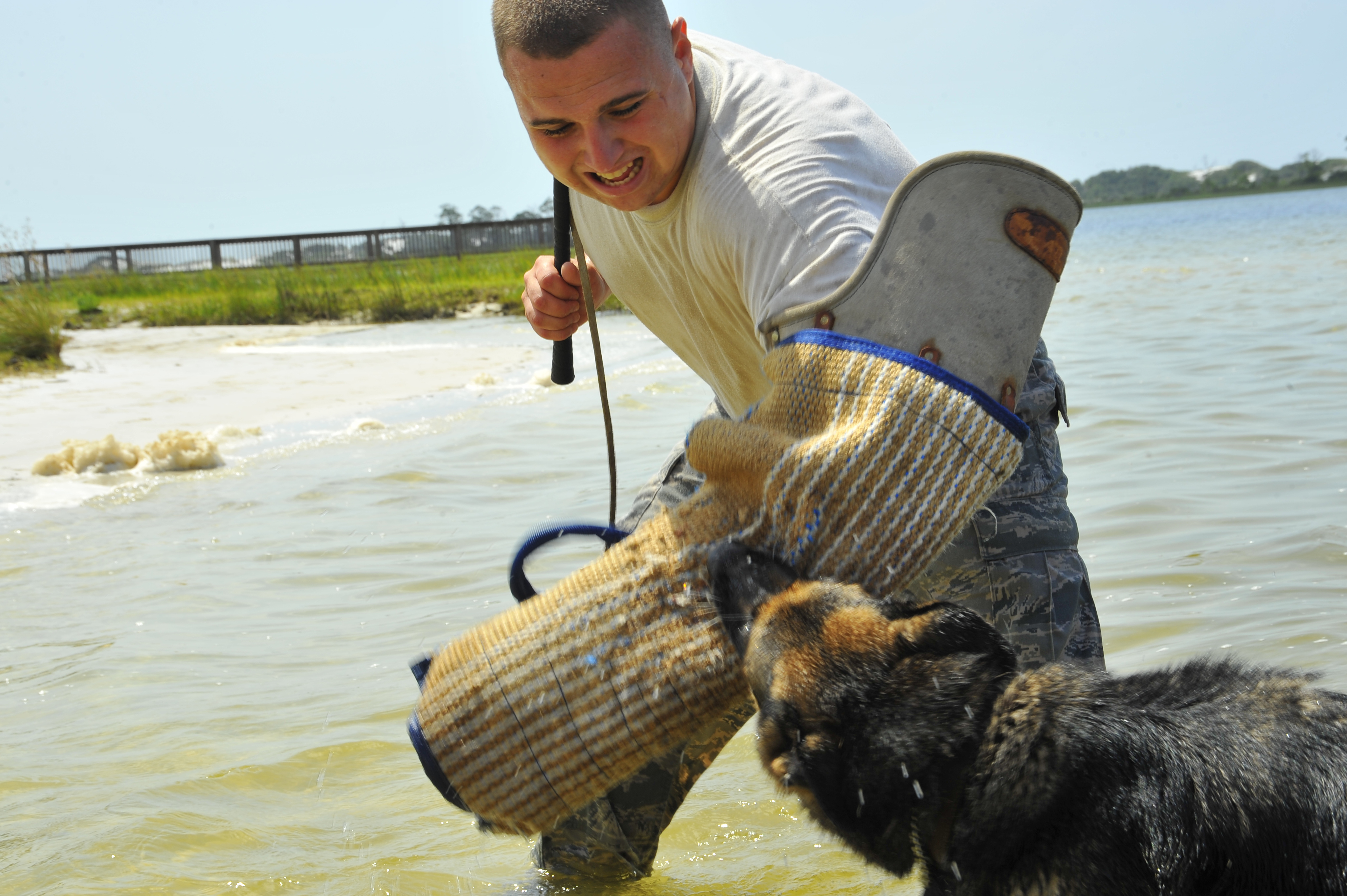 U.S. Air Force Staff Sgt. Roberto Matos receives a bite from Britta, a military working dog, in a controlled water aggression exercise at Hurlburt Field, Fla., July 14. The goal of water aggression training is to allow the dogs to become more comfortable working in a variety of environments. Matos and Britta are assigned to the 1st Special Operations Security Forces Squadron.